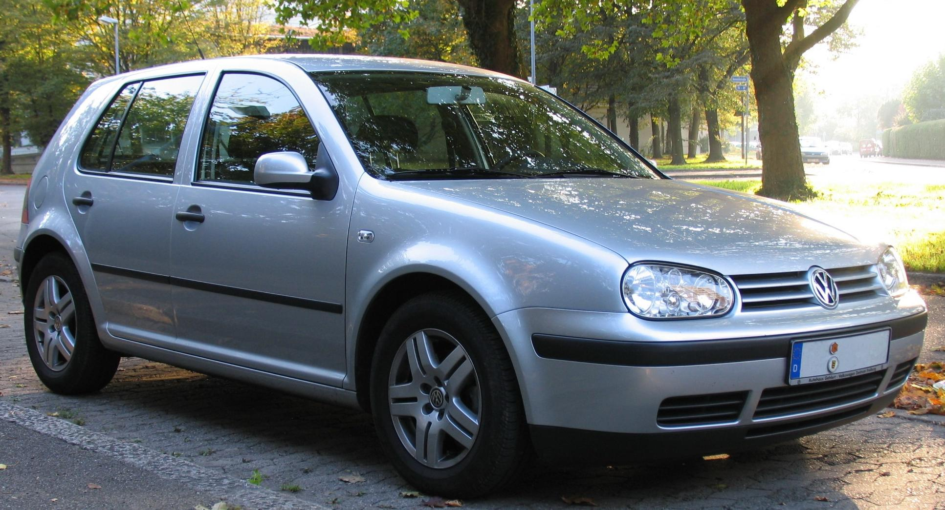 Beschreibung: Volkswagen Golf IV Quelle: selbst aufgenommen mit Canon PowerShot Pro1 Fotograf: CrazyD, 18. Oktober 2005 Lizenzstatus: GNU FDL Description: Volkswagen Golf IV Source: photo was taken by my self with Canon PowerShot Pro1 Photographer: CrazyD, 18 Oktober 2005 Licence: GNU FDL